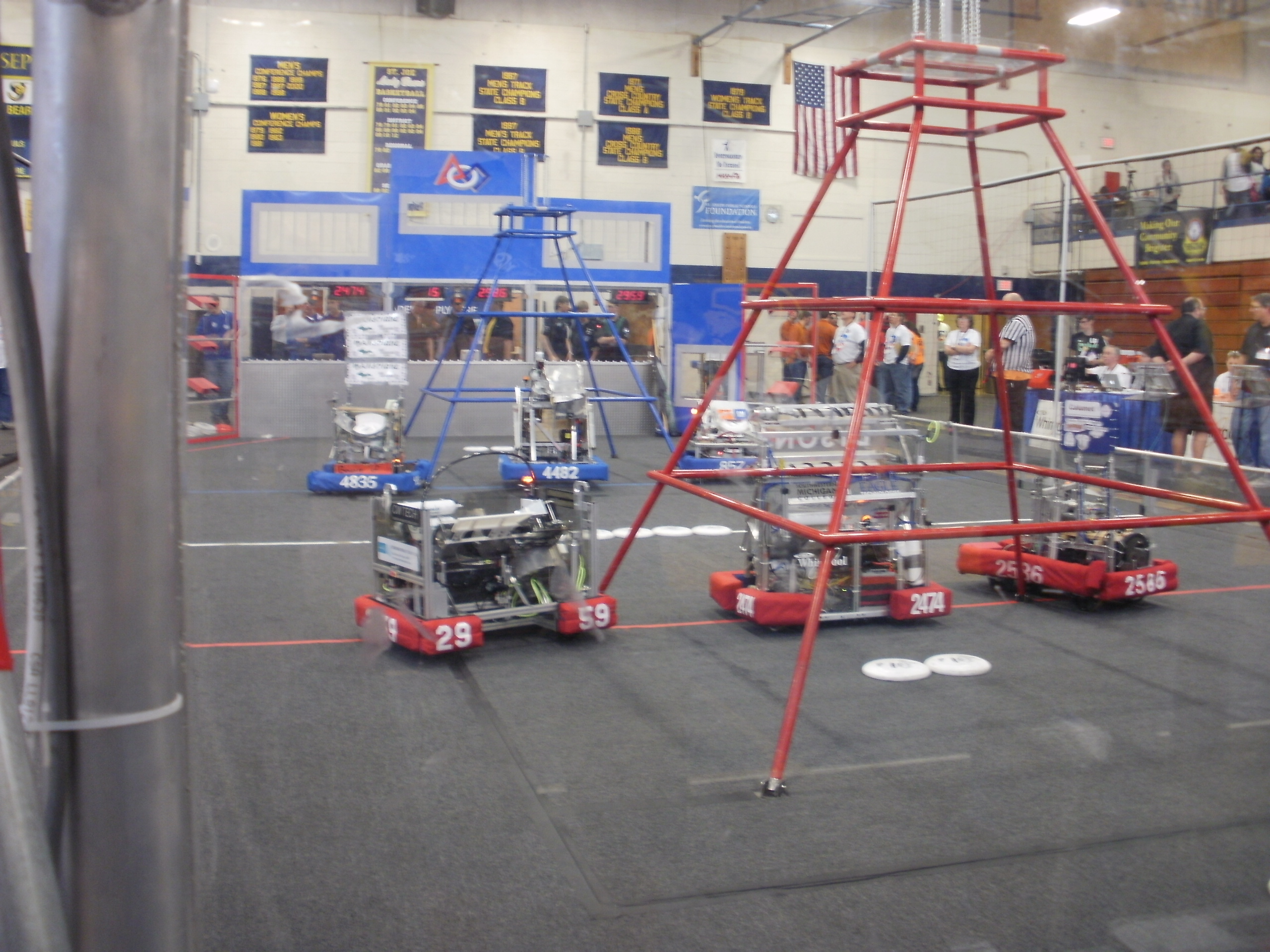 View from the about driver station of the Ultimate Acent playing field at the St. Joseph district event. Taken in the 1v8 quarterfinal, with the red alliance eventually winning the event.